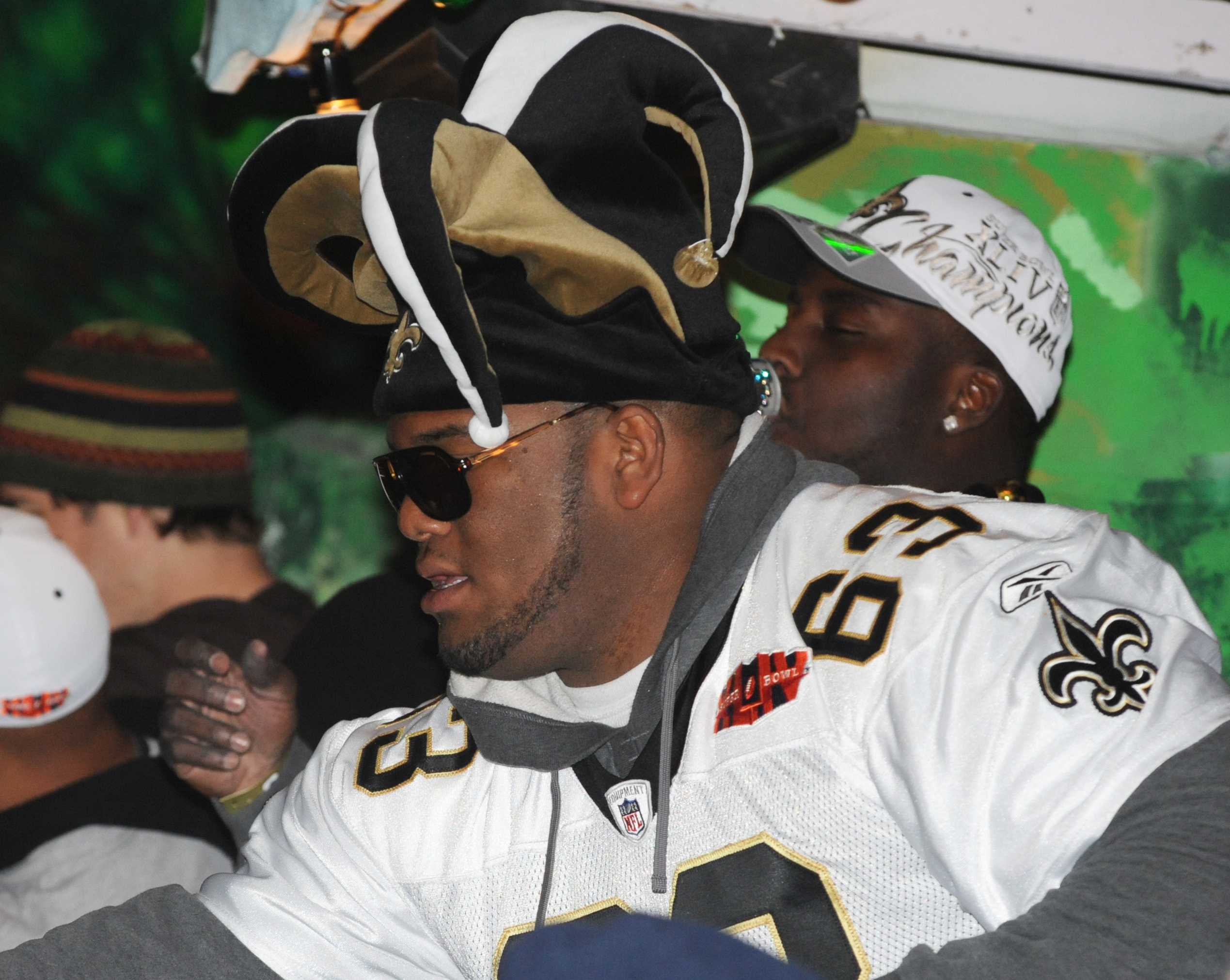 February 9, 2010